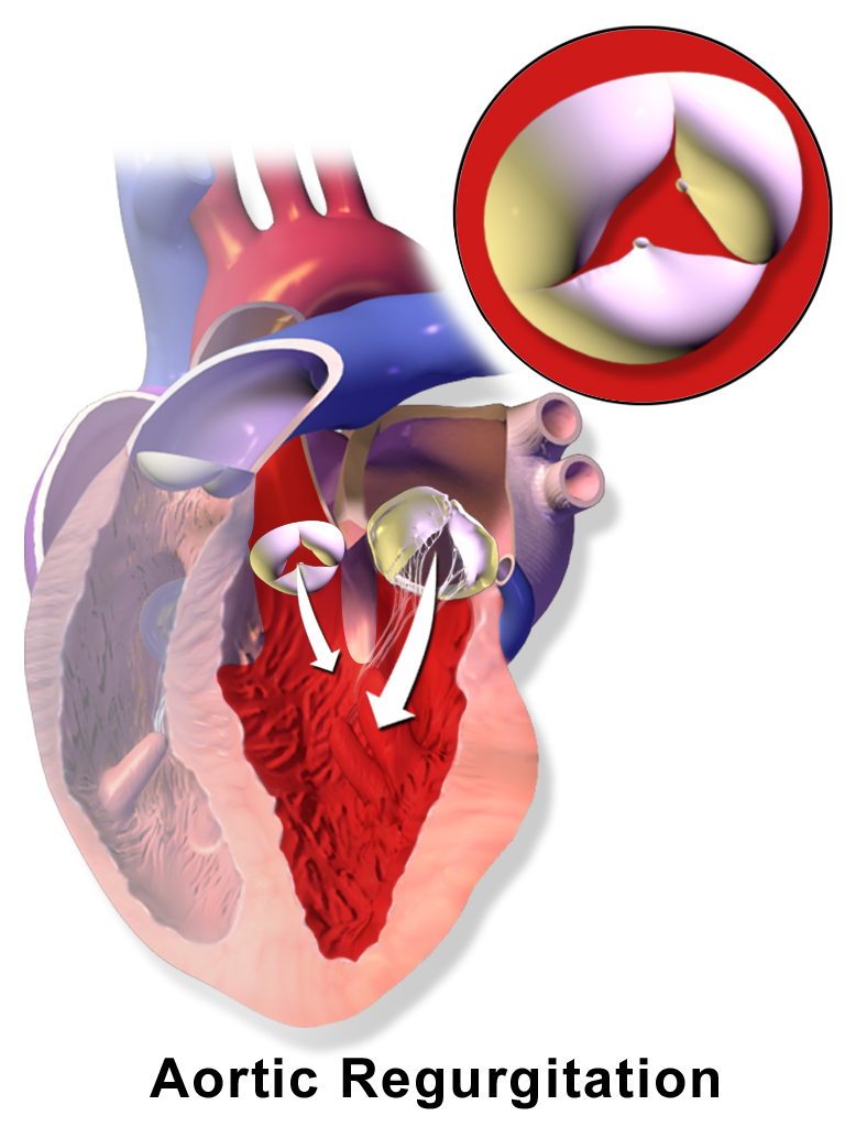 Aortic Regurgitation. See a related animation of this medical topic.